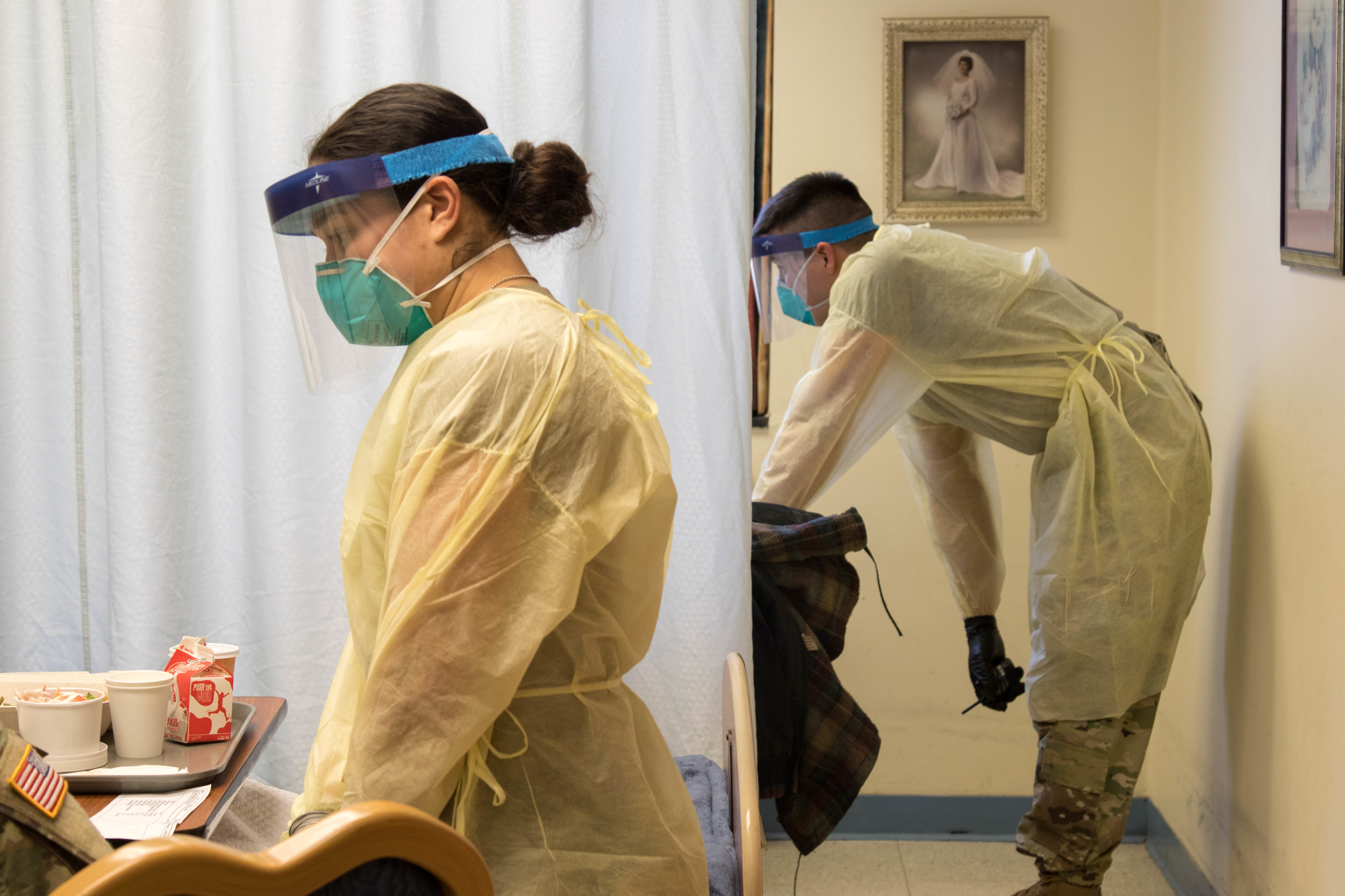 Soldiers from the Massachusetts National Guard chat with residents of the Holyoke Soldiers Home in Holyoke, Mass., April 1, 2019. Soldiers from the Mass. National Guard, most of whom are medics or health care providers, are on hand at the long term care facility to augment the staff as they and the residents face an outbreak of COVID-19 cases. (Massachusetts National Guard photo by Army Spc. Samuel D. Keenan)